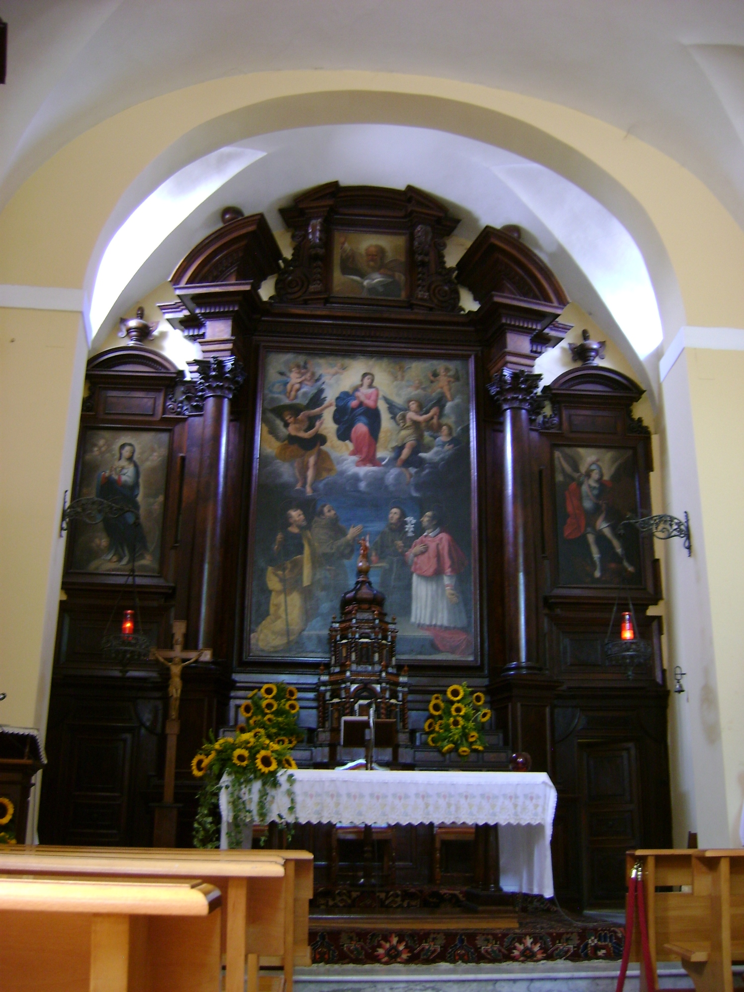 The altar of the convent of Capuchin in Guardiagrele, in the province of Chieti, Abruzzo